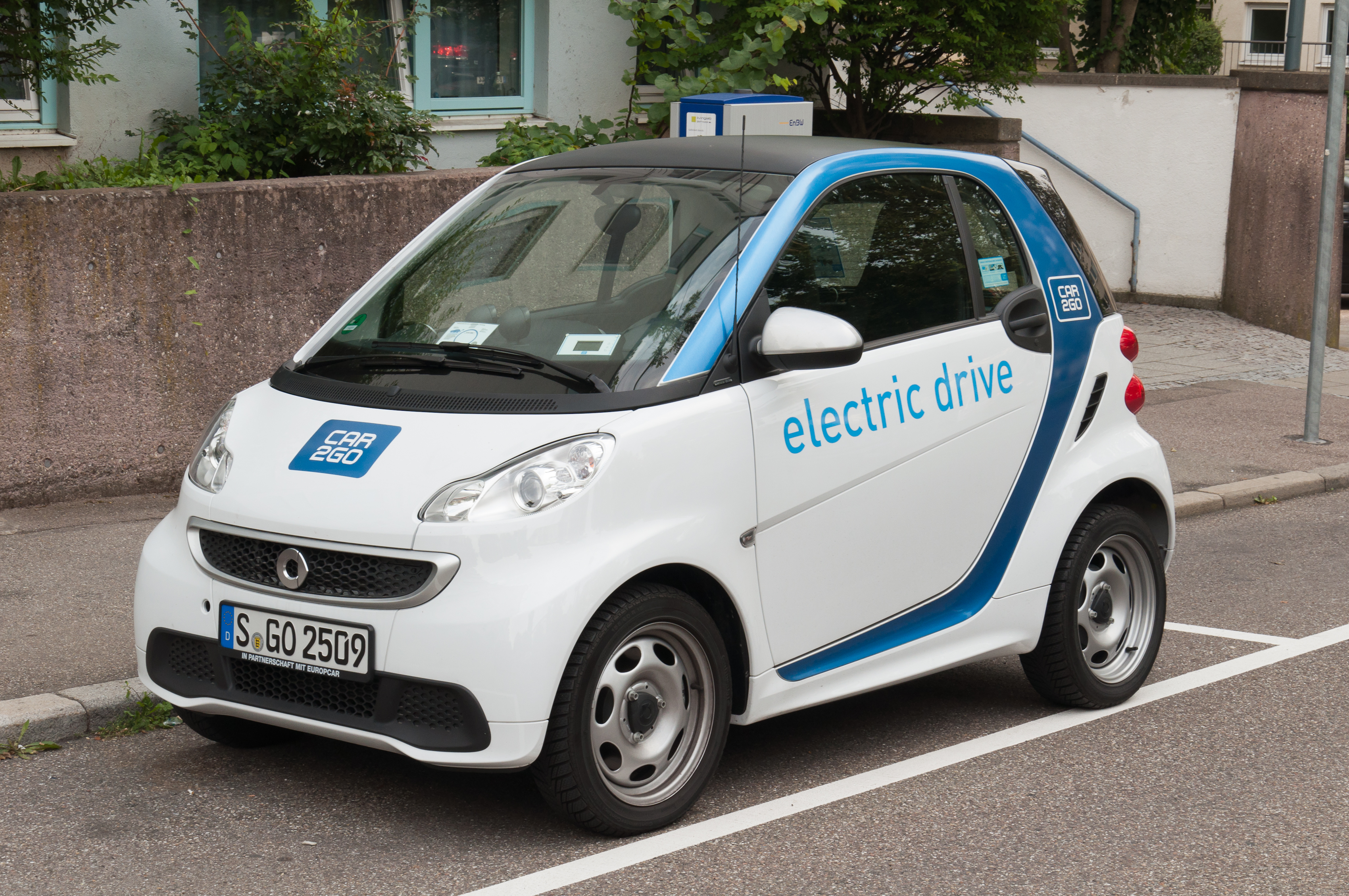 Car2Go electric charging station in Stuttgart with a 3rd generation Smart electric car.